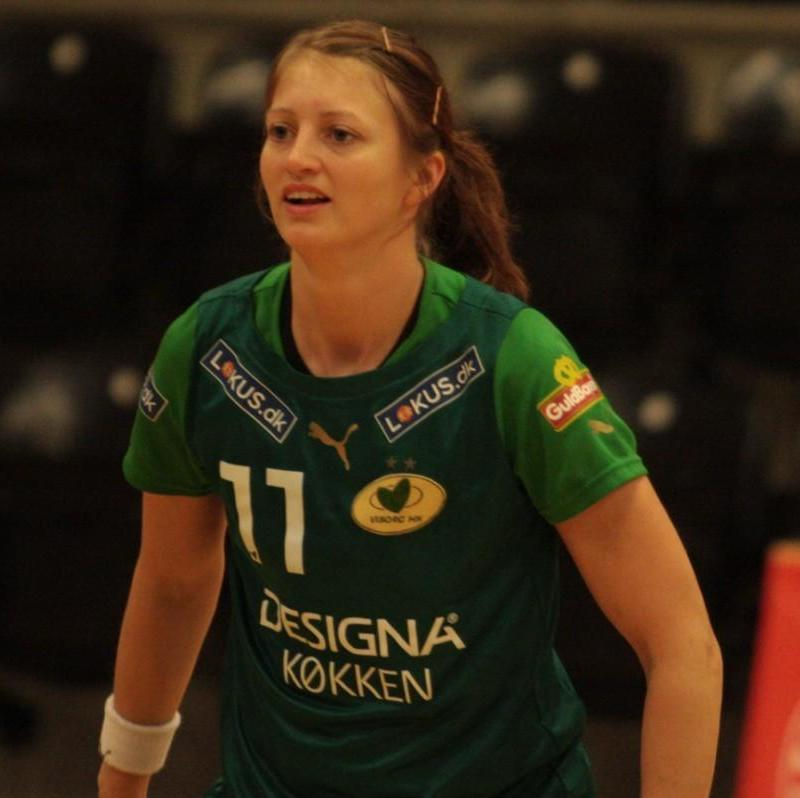 Lene Lund Nielsen, Danish handball player, during a 2008/09 Danish Championship play off match between KIF Vejen and Viborg HK. The picture was taken on 25 April 2009.